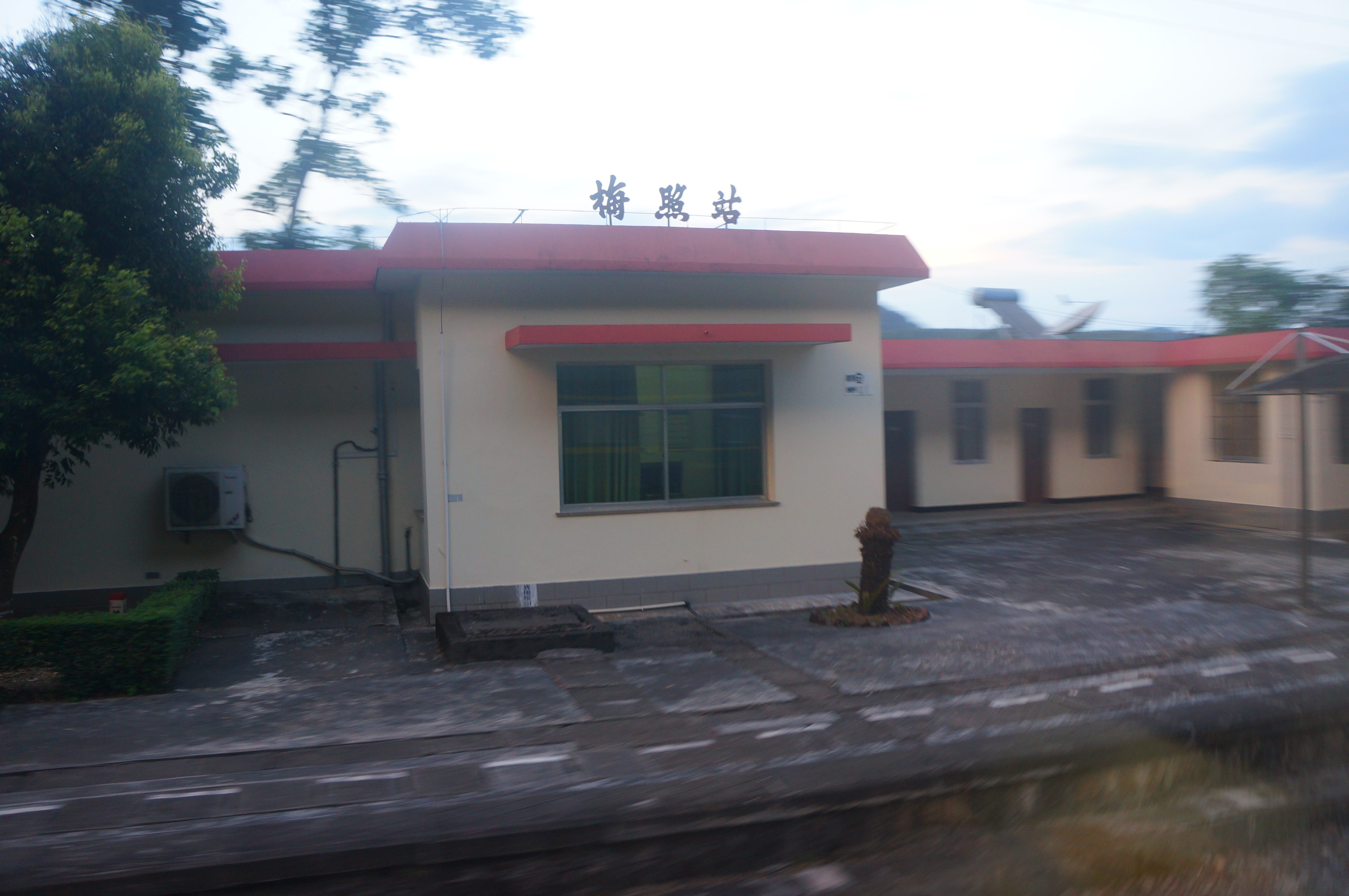 201708 Meizhao Station